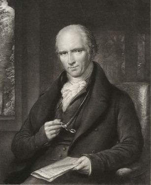 Portrait of James Stephen (1758–1832), lawyer and slavery abolitionist